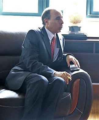 Mohamed Salama Badi visiting Minister for Foreign Affairs and Cooperation of East Timor, Mr. Dionísio Babo Soares.